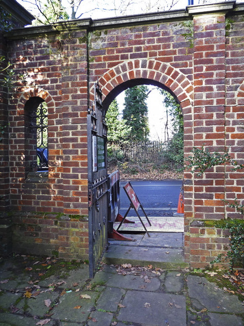 Entrance to Minchenden Oak Garden, London N14 Looking out through the entrance doorway to Minchenden Oak Garden towards Waterfall Road.